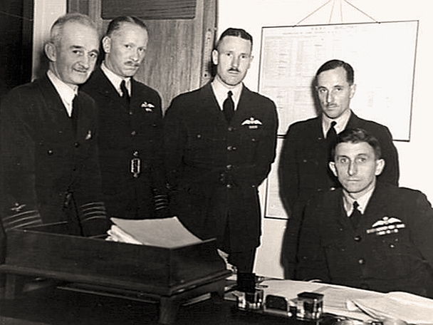 AWM Caption: "1942-05-12. AIR VICE-MARSHAL G. JONES, D.F.C. NEW CHIEF OF THE AUSTRALIAN AIR STAFF, WITH RAAF MEMBERS OF C-IN-C ALLIED AIR FORCES SOUTH WEST PACIFIC, LT. GENERAL BRETT'S STAFF. LEFT TO RIGHT: GROUP CAPTAIN C.S. WIGGINS, DIRECTOR OF COMMUNICATIONS GROUP CAPTAIN A.L. WALTERS, ASSISTANT DIRECTOR OF OPERATIONS GROUP CAPTAIN V.E. HANCOCK, ASSISTANT DIRECTOR OF PLANS AIR COMMODORE HEWITT, DIRECTOR OF INTELLIGENCE AIR VICE-MARSHAL JONES (SEATED)